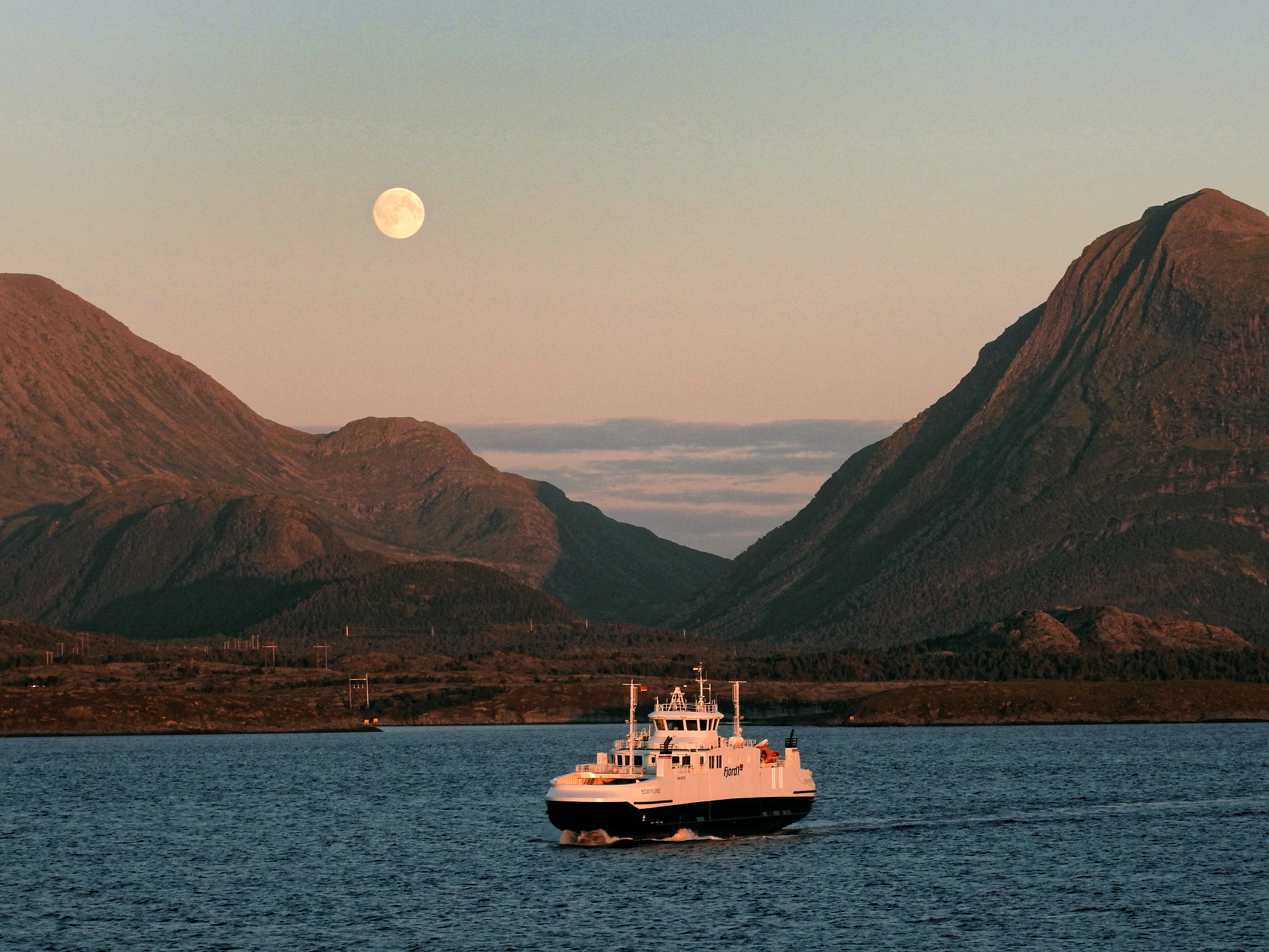 Moonrise over Norway.